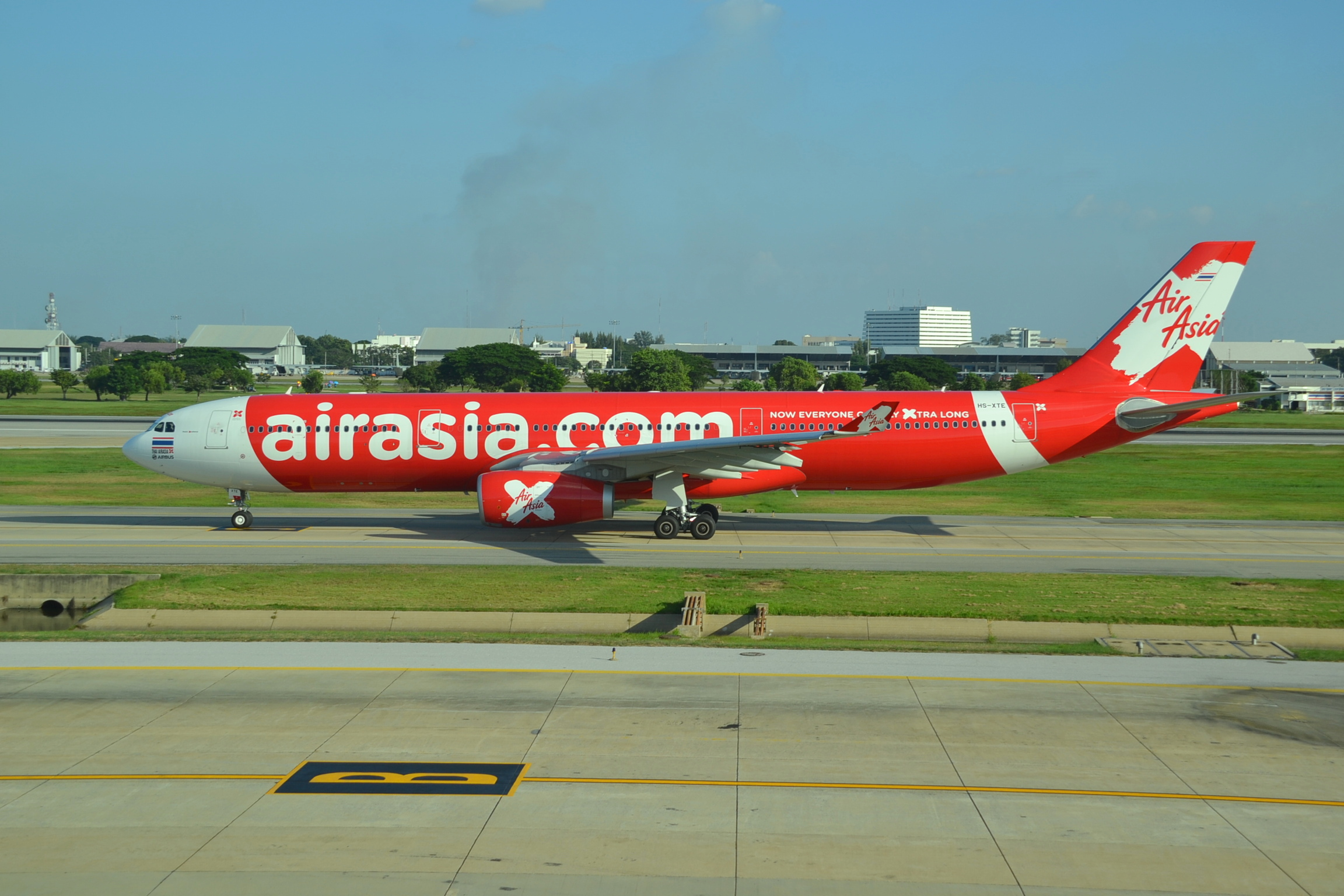 Airbus A330 of Thai AirAsia X at Bangkok Don Mueang- DMK, Thailand,26/11/15.